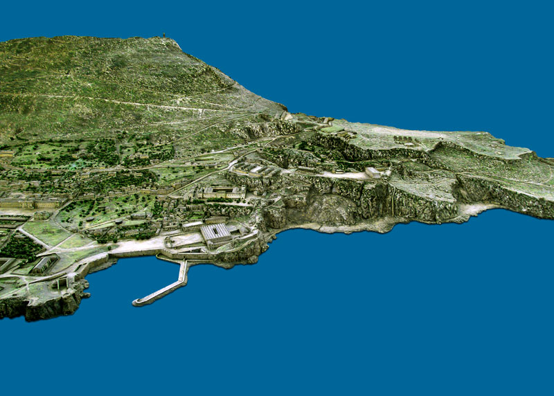 Rosia Bay anchorage and Parsons Lodge can be seen at the bottom centre. It was this bay that H.M.S. Victory was towed to after the Battle of Trafalgar with Nelsons body onboard. O'Haras Tower can be seen at the top of the Rock in the centre. This would later be the site of O'Haras and Lord Aireys Batteries, still in existence today.Views from a model of Gibraltar in Gibraltar Museum. The model is 8 meter's long at a scale of 1/600 or 1inch = 50ft which represents the almost 3 mile length of Gibraltar It was completed in 1865 from a survey by Lient. Charles Waren R.E. under the direction of Major General Frome R.E. it was coloured after nature by Captain B.A. Branfill of 86 Regiment 1868. These pictures are from and are generously given by the site and its auithor Jim Crone